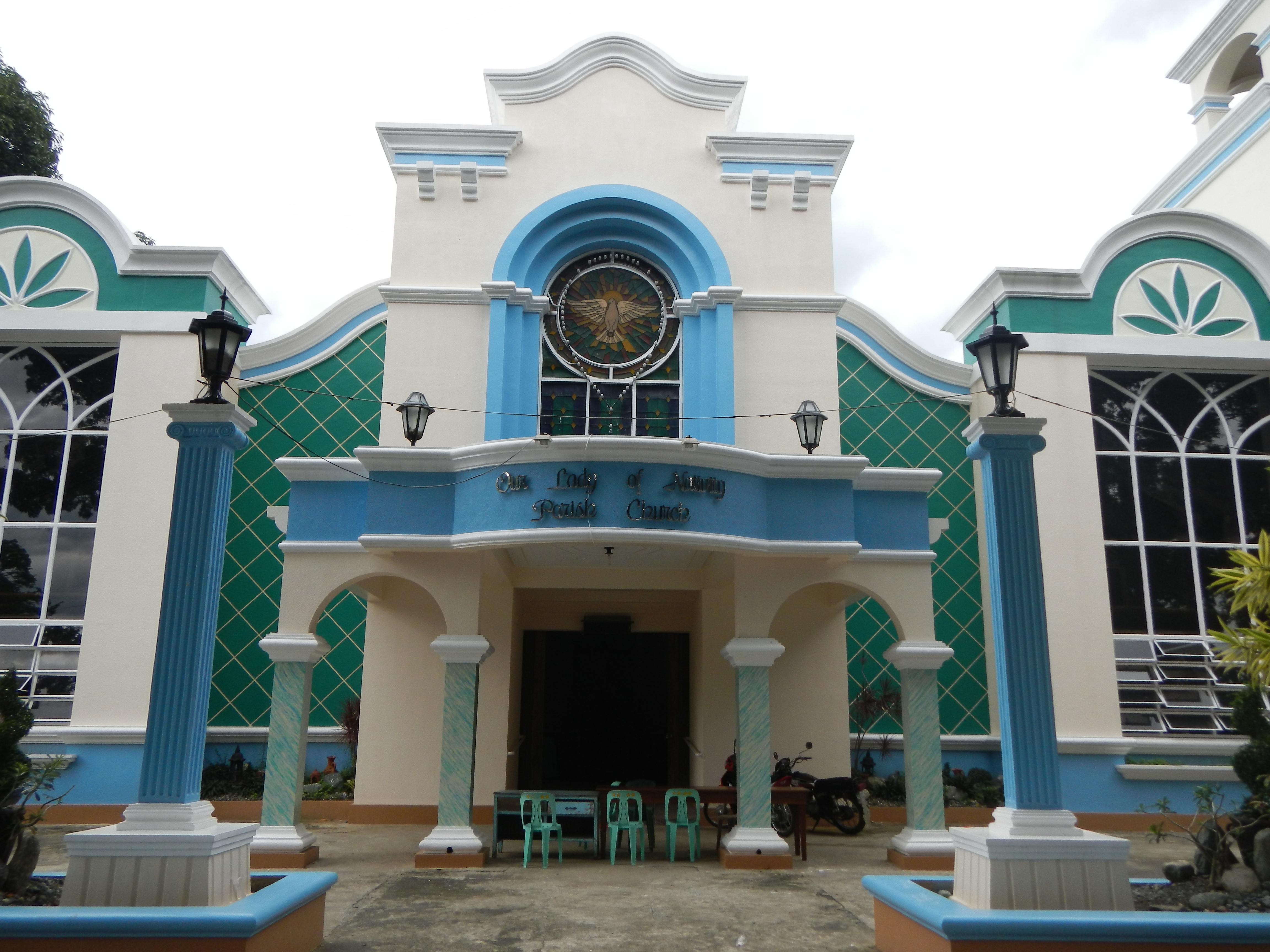 Our Lady of the Nativity Parish Church of Natividad (F-1942) Address: Natividad, 2446 Pangasinan, Philippines Feast Day: September 18 Parish Priest: Father Richard G. Abalos Vicariate of St. Joseph Vicar Forane: Father Cirilo P. Mayugba [1] [2] Zamora Street, Natividad, 2446, Pangasinan[3] Natividad town was created by the Philippine Commission on December 25, 1904, formerly a barrio of San Nicolas, church was built in 1927 by Father Reynaldo Rola. It belongs to the Roman Catholic Diocese of Urdaneta.[4] - Nativity of Jesus[5] [6] Nativity of Mary Birth of Mary -- Natividad, Pangasinan [7] --- [8] Land Area: 34.50 km² ZIP Code: 2446 Coordinates: 16°2'41"N 120°49'49"Epolitically subdivided into 18 barangays: a 4th class municipality of Pangasinan,[9]Philippines, 2007 census, with a population of 19,870 people in 4,153 households. Website [10] Coordinates: 16°2'37"N 120°47'44"E Municipality of NatividadMap geographical location: Pangasinan, Region 1, Philippines, Asia - Geographical coordinates are 16° 2' 30" North, 120° 48' 1" East and its original name (with diacritics) is Natividad. [11] founded on March 7, 1902.